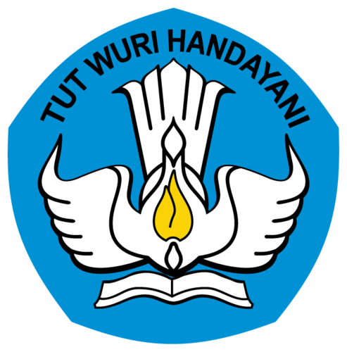 Seal of Ministry of Education and Culture of IndonesiaBahasa Indonesia: Lambang Kementerian Pendidikan dan Kebudayaan